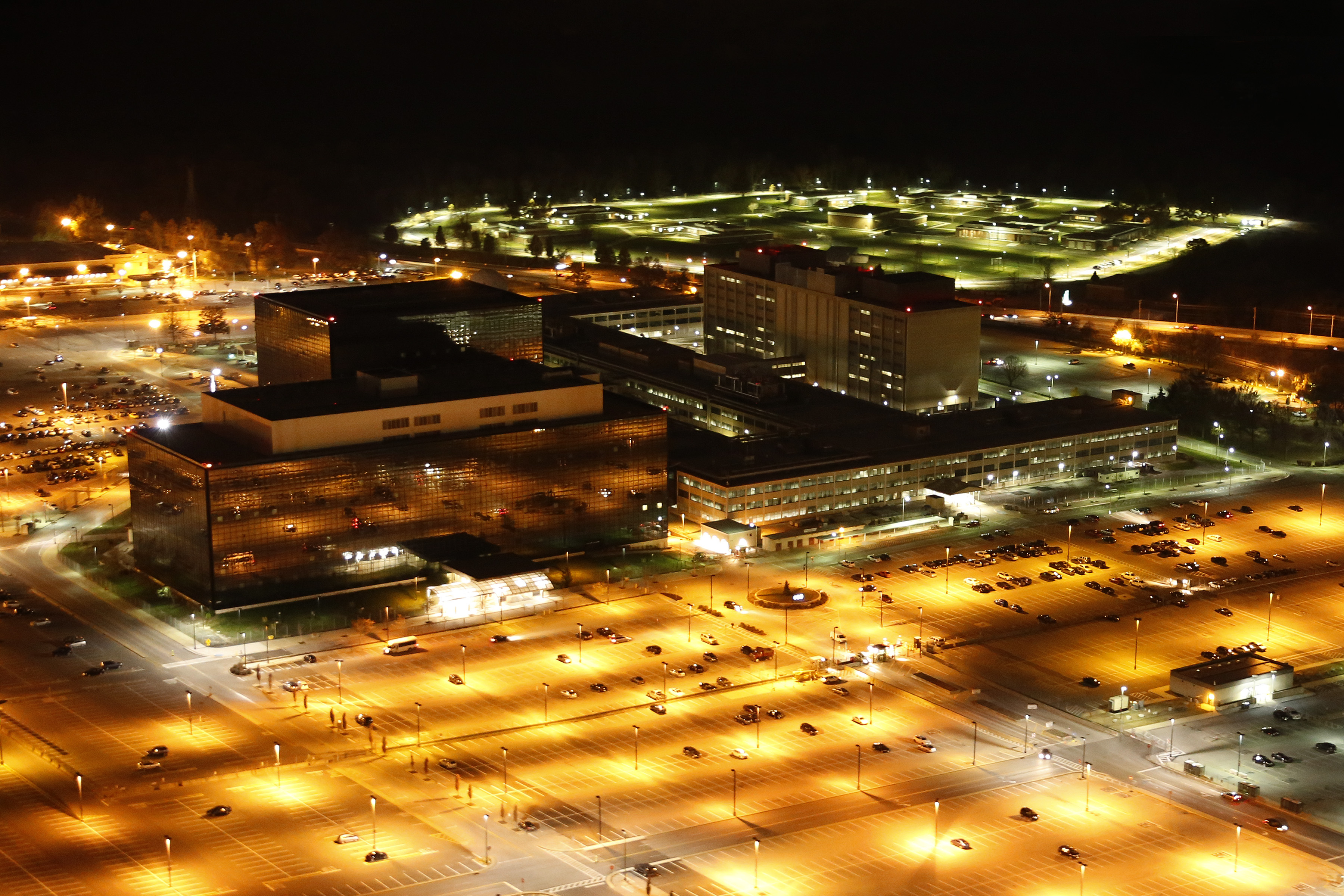 Aerial photograph of the National Security Agency by Trevor Paglen. Commissioned by Creative Time Reports, 2013.